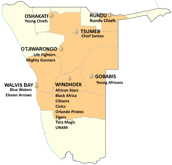 Clubs and towns of Namibia Premier League 2016/17